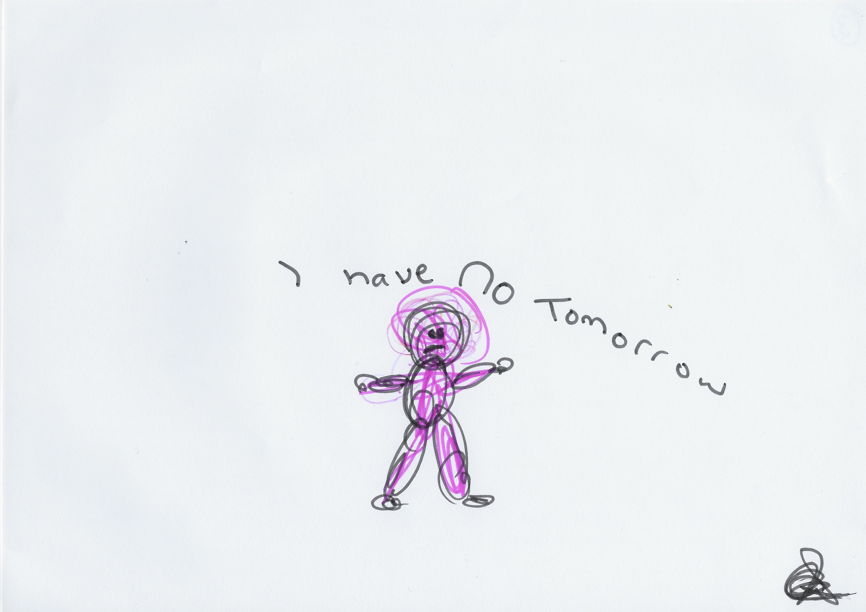 Refugee Drawing Title : Tomorrow. By a 16 years old Iraqi Girl. Currently living in Kara Tepe Refugee Camp, Lesbos Island,Greece. Other Info : This girl has lost almost all hope of having a better life tomorrow.